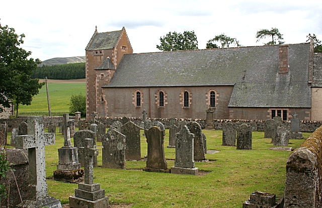 Our Lady of Perpetual Succour, Chapeltown, Moray, Scotland